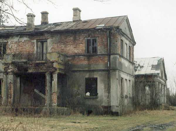 Bachorza manor 01.1978.